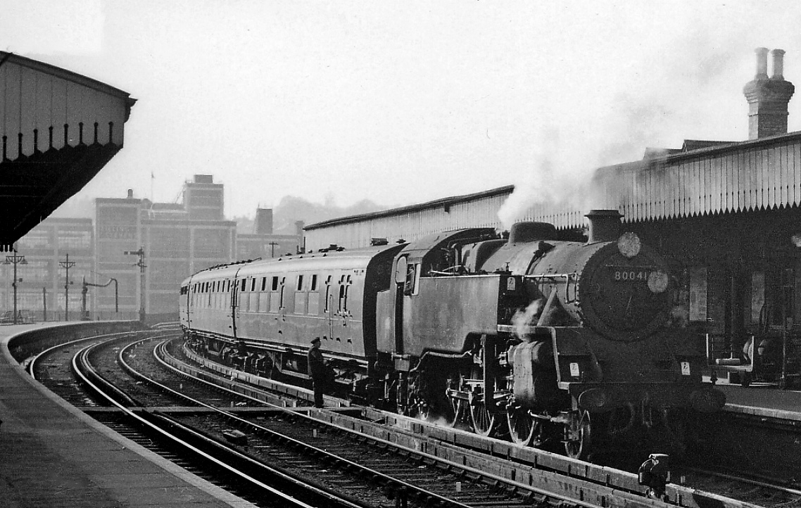 Maidstone East station, with local train to Ashford. View westward, towards Otford and London: ex-SE&C London - Bromley South - Otford - Maidstone - Ashford line. The locomotive is a BR Standard 4MT 2-6-4T, by then dominant on such workings: No. 80041 (built 7/52, withdrawn 3/66).